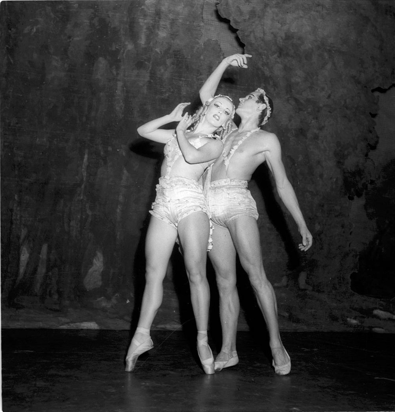 Note: From 1936-1941, three tours by the beautful young dancers of the Russian Ballet astonished Australian audiences with modern dance. Box office records were broken as the theatre was filled every night for long seasons, especially in Sydney and Melbourne. Avant gard photographer Max Dupain, captured them in studio and theatre photographs, and the negatives are held by the State Library of New South Wales. These ballet tours established ballet in Australia and helped to lead to the creation of the Australian Ballet some years after the War. Format: Negative Find more detailed information about this photograph: .au/item/itemDetailPaged.aspx?itemID=414332 Search for more great images in the State Library's collections: .au/search/SimpleSearch.aspx From the collection of the State Library of New South Wales